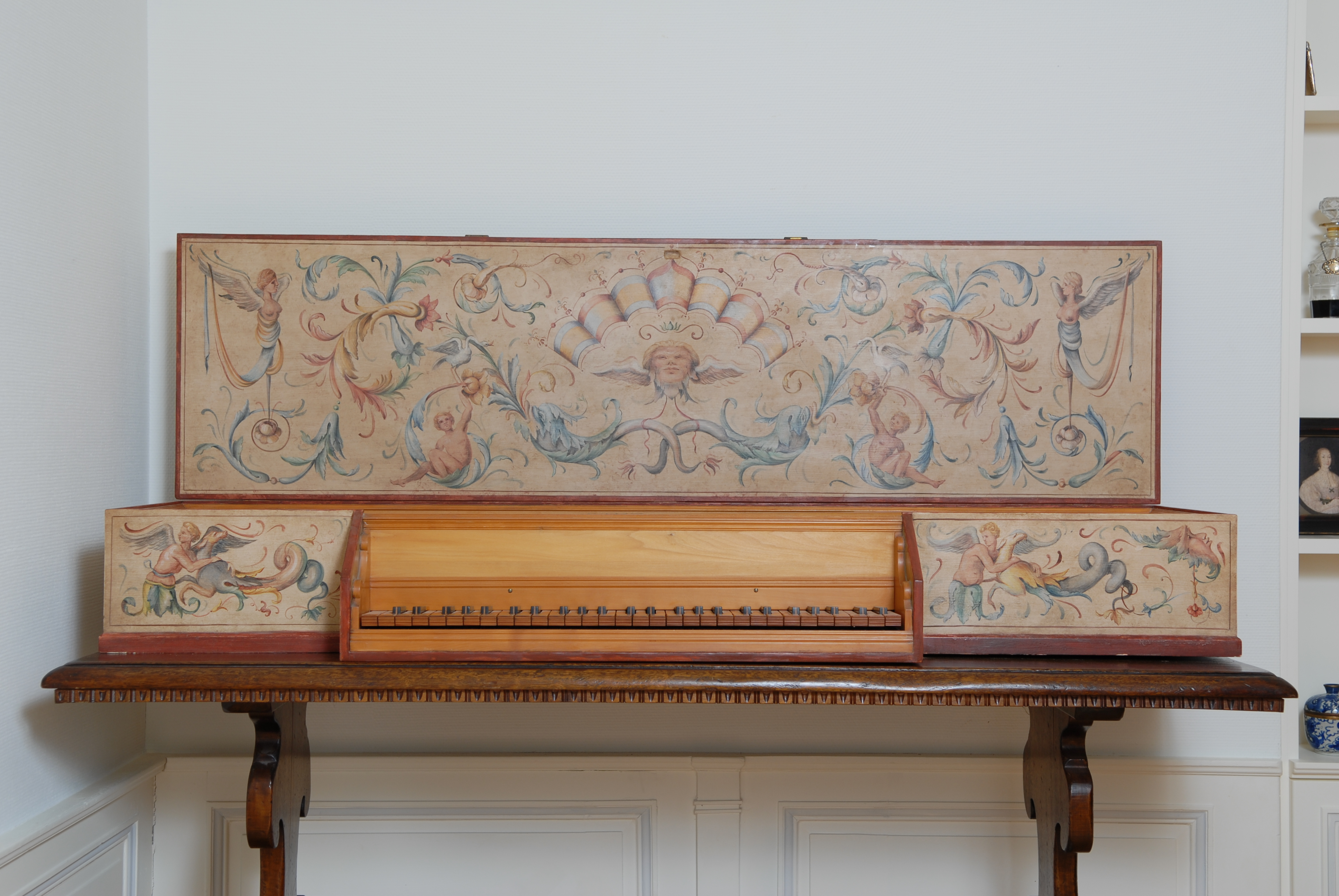 An Italian spinetta or virginals, copy after Alessandro Bertolotti of Venice or Verona, ca 1586, in the Russell Collection of Early Keyboard Instruments, Edinburgh [1]; the antiqued off-white case painted inside and out with grotesques, 54-note keyboard with short octave, naturals in boxwood with pearwood fronts, accidentals in ebony with boxwood fillets down the centre, the jackrail incised "PDF MCMLXXXIII" in black, an ornate multi-layered rose in the soundboard, length 163.5 cm., height 21.7 cm., overall depth 56 cm. Made by Pierre Dunand Filliol of Geneva, Switzerland in 1983. Decorated in 2006 by Alison Woolley, Florence [2].